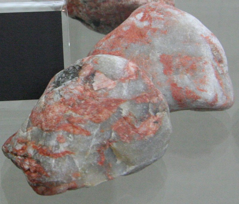 Pebbles of pegmatitic rock (presumably granite pegmatite).